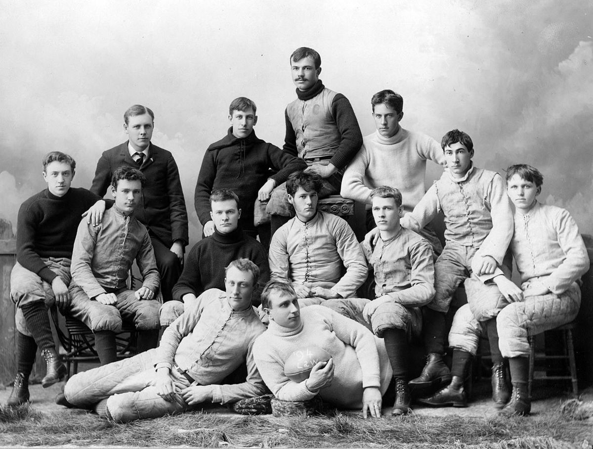 1894 Wisconsin Badgers football team